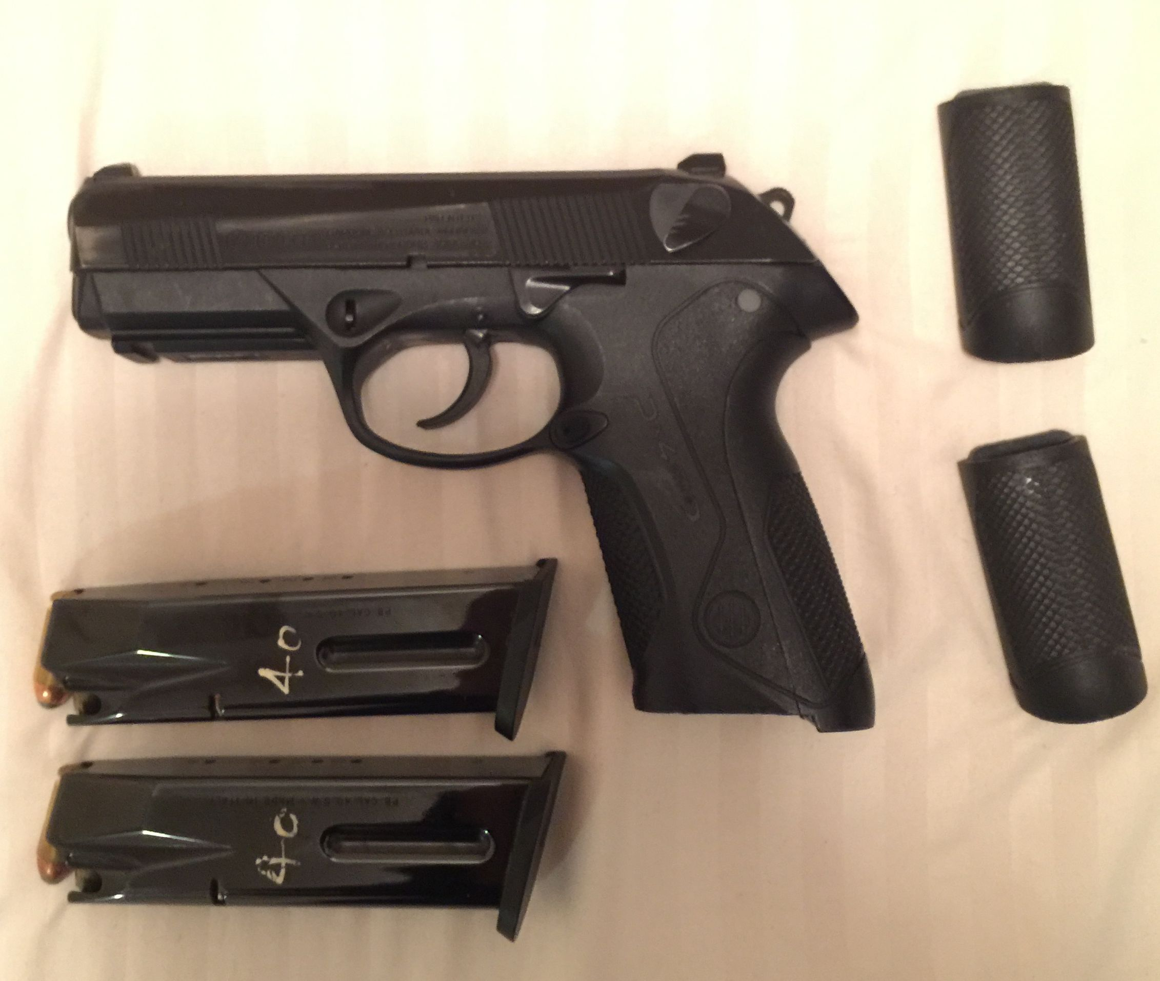 Px4 come with 3 different size of Backstraps (rear grip wrap) to fit to different size of shooter's hands.